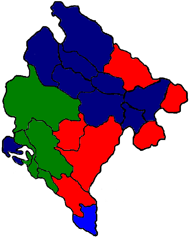 Results of Montenegro, municipal elections, 2000-02 by municipality.